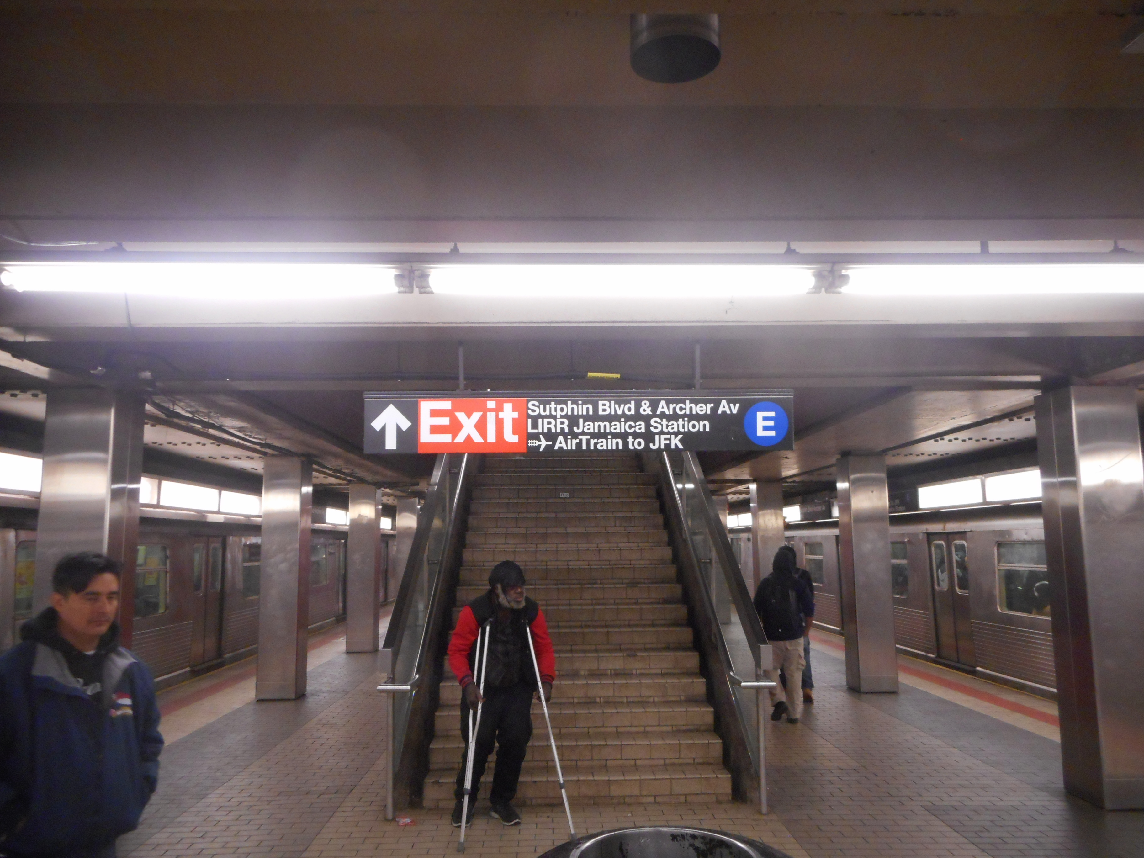 Staircase leading from the lower level of the Sutphin Boulevard-Archer Avenue-JFK Airport Subway Station on the BMT Archer Avenue Line where the or trains run, to the upper level, on the IND Archer Avenue Line which is also where the train runs. Both sections are in the Downtown Jamaica section of Queens, New York City. Additionally this also leads to the Jamaica Long Island Rail Road station above, which is also shared with the Jamaica AirTrain JFK station across the LIRR tracks.